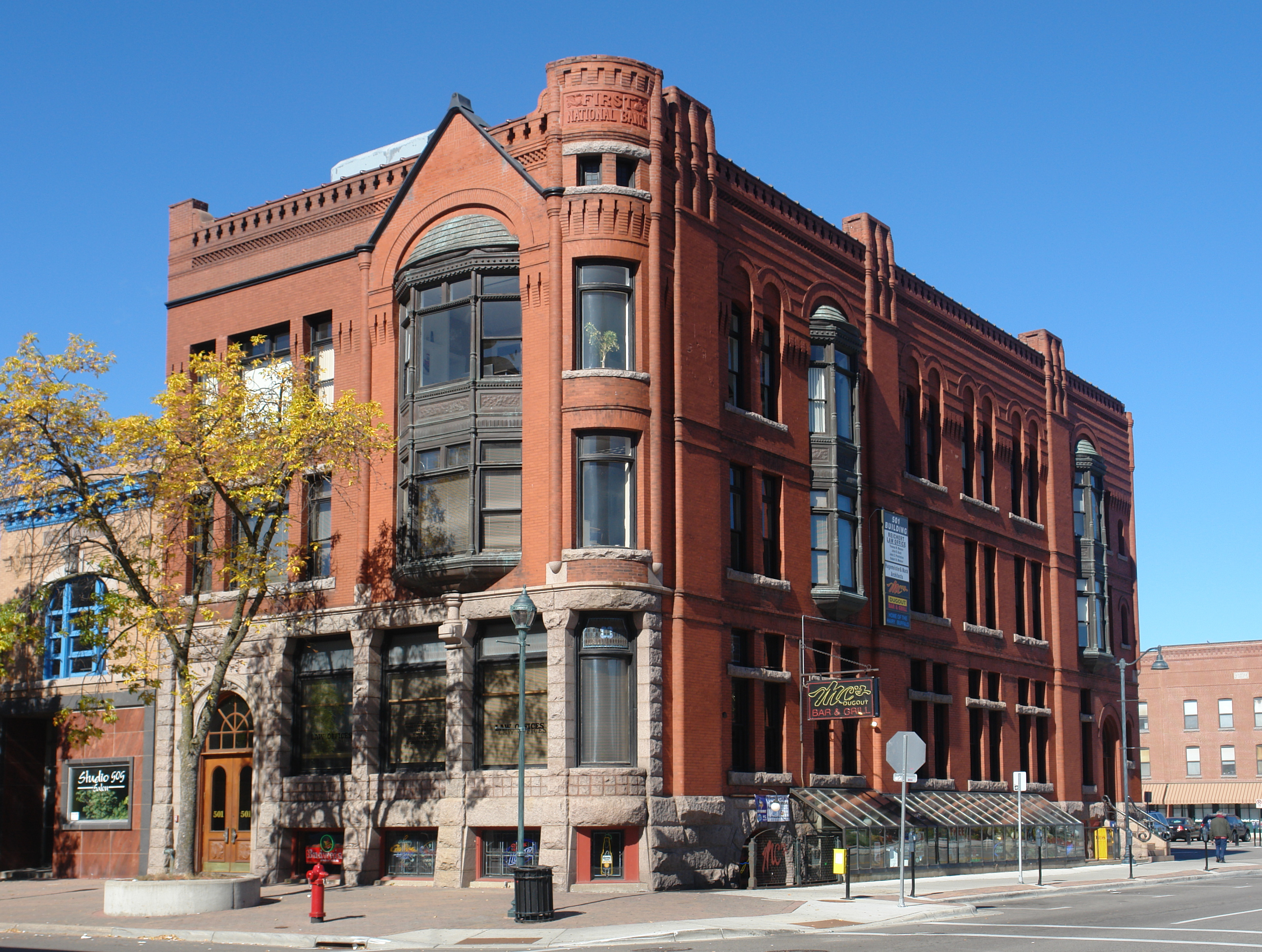 Front facade and side viewed from the east. Now known as the 501 Building.